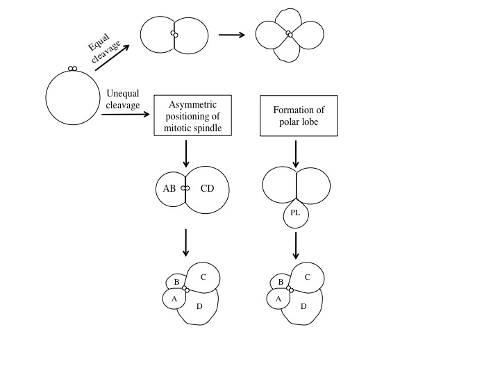 Diagram explaining eual and unequal clevage in relation to embryo formation.